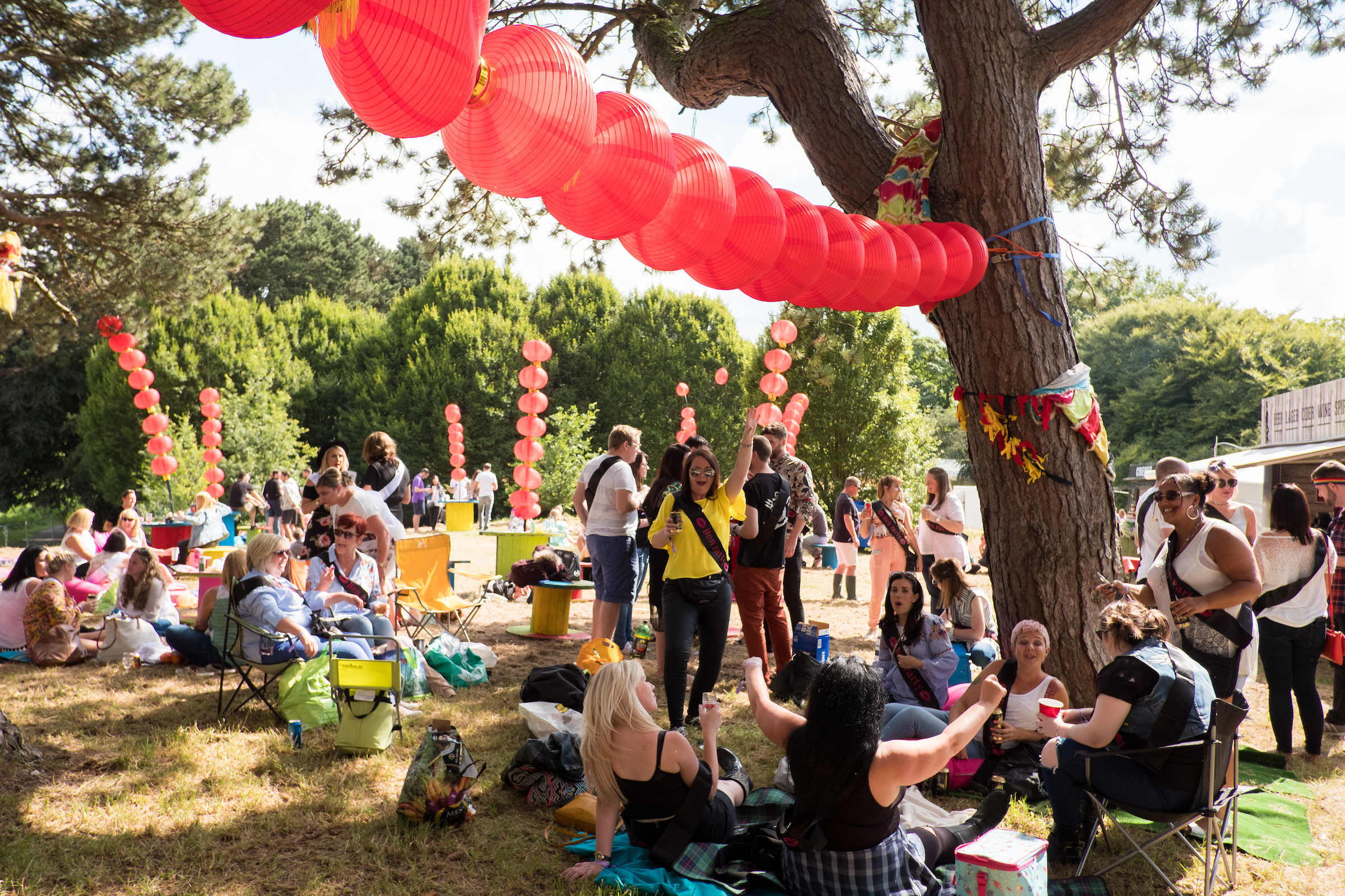 LIMF VIP area, introduced at the 2017 festival